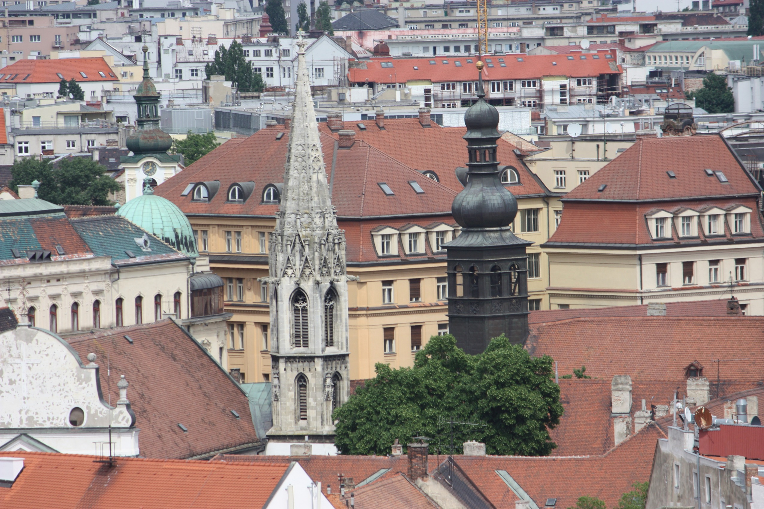 Bratislava, view from the castle hill to the towers of the churches "Zvestovania Pána" and "uršulínok"